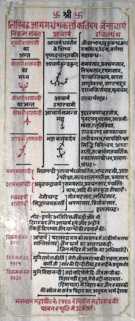 Stela at Marhiaji, Jabalpur, showing the Digambar Jain scholarly tradition. Erected on the 2500th anniversary of Lord Mahavira's nirvana.